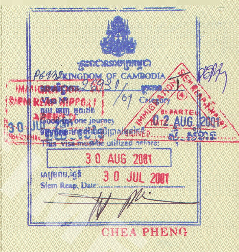 Visa and passport stamps from Siem Reap International Airport (2001), Cambodia